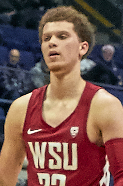 University of California Golden Bears versus Washington State University Cougars, PAC12 Mens Basketball, Haas Pavilion, Berkeley, CA